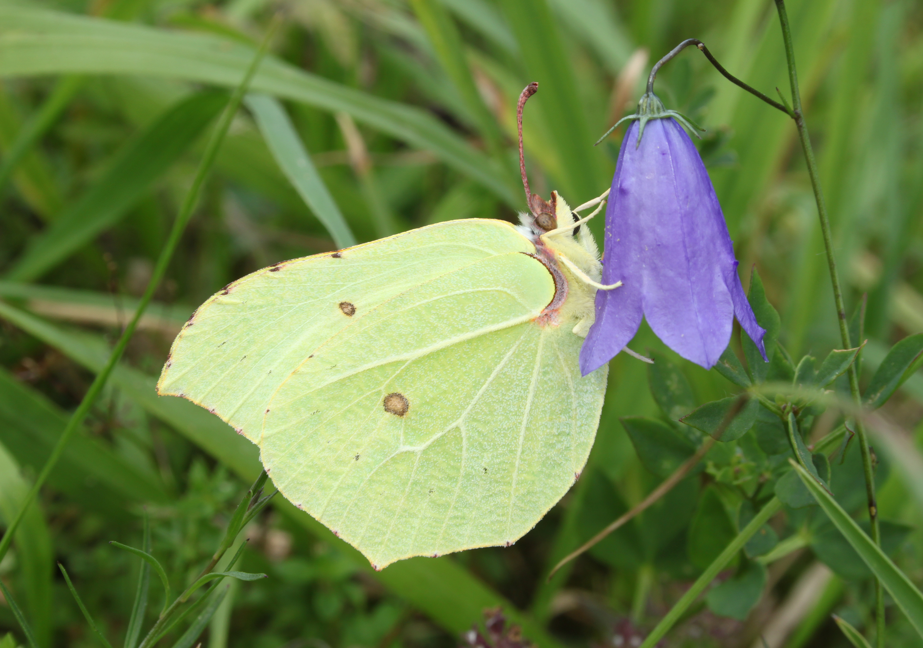 Common Brimstone, Gonepteryx rhamni, Family: Pieridae, Location: Germany, Blaubeuren, Pappelau